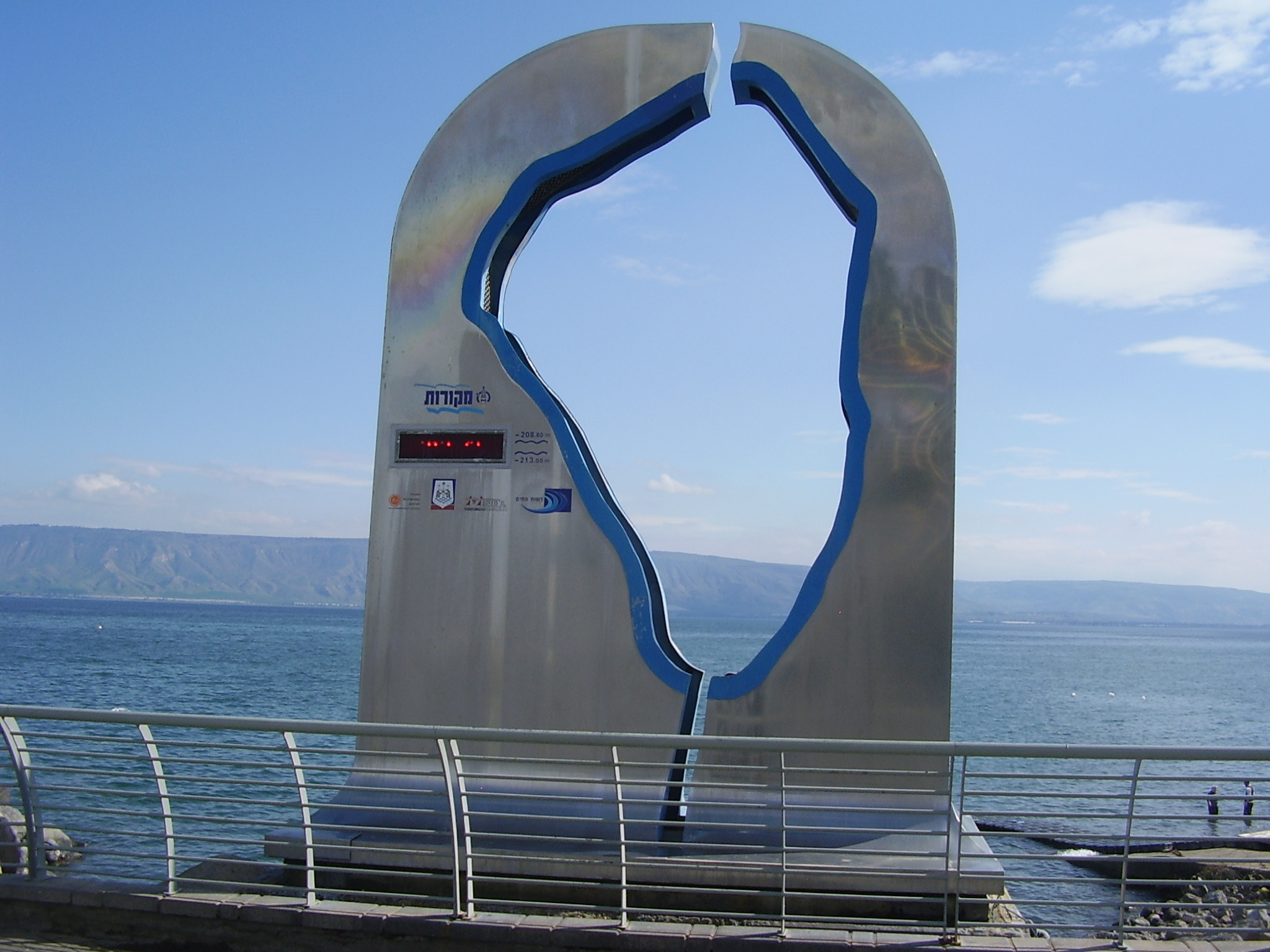 the water level surveyor in the sea of galilee